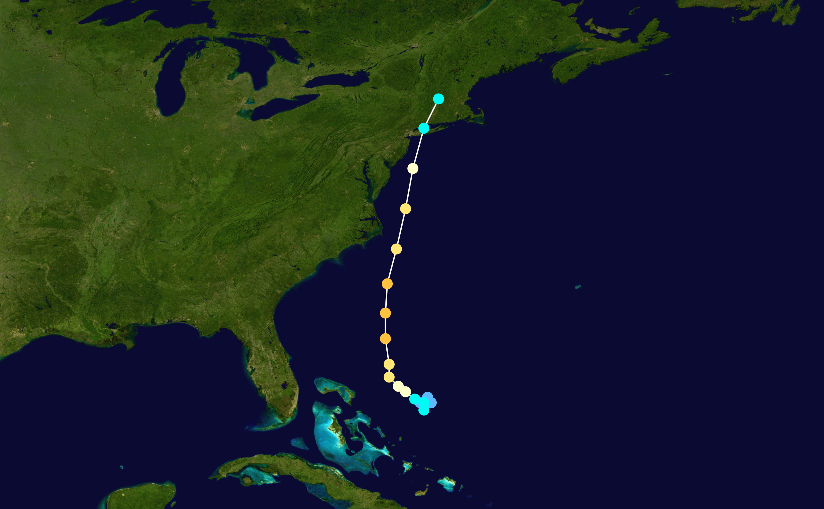 Hurricane Belle (1976) track. Uses the color scheme from the Saffir-Simpson Hurricane Scale.